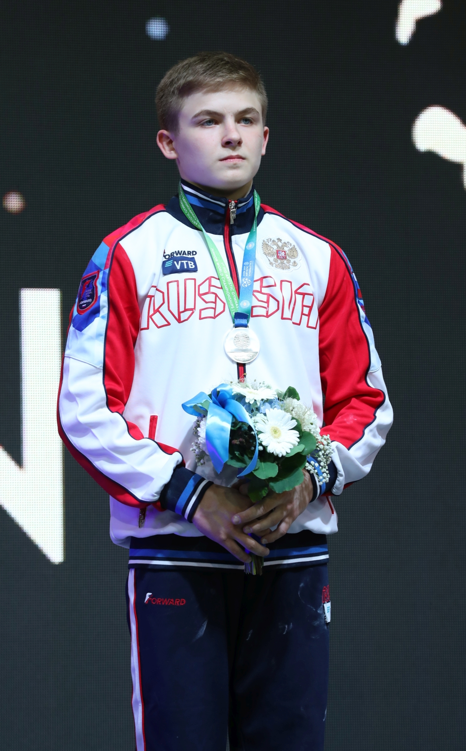 Horizontal bar victory ceremony during the boys' apparatus finals at the 1st FIG Artistic Gymnastics Junior World Championships on 30 June 2019 in Győr, Hungary. Depicted: Ivan Gerget.